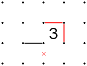 A partial Slitherlink game showing the knowledge learnt from a line being adjacent to a 3.